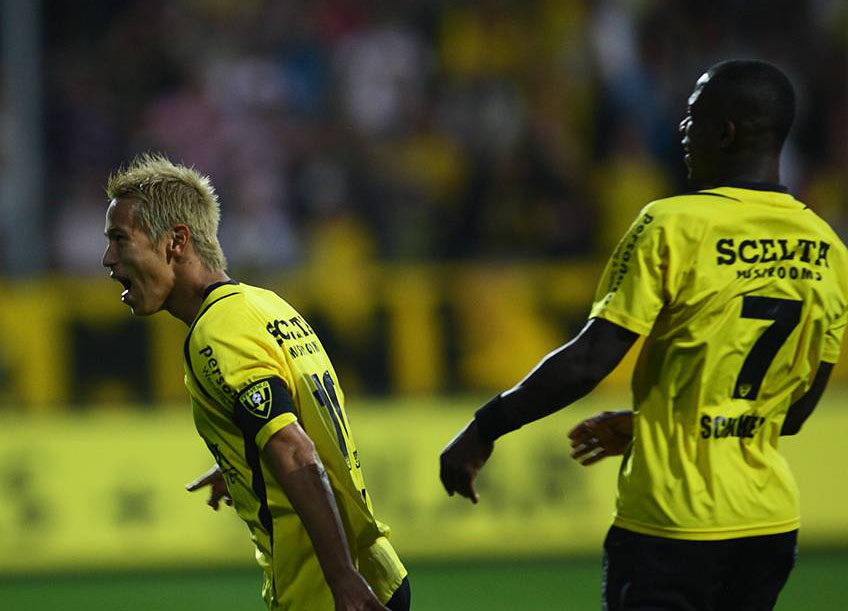 AUGUST 22, 2009 - Football : Keisuke Honda of VVV Venlo celebrates his goal during the Eredivisie match between VVV Venlo and FC Groningen at the De Koel stadium on August 22, 2009 in Venlo, Netherlands. (Photo by Tsutomu Takasu)